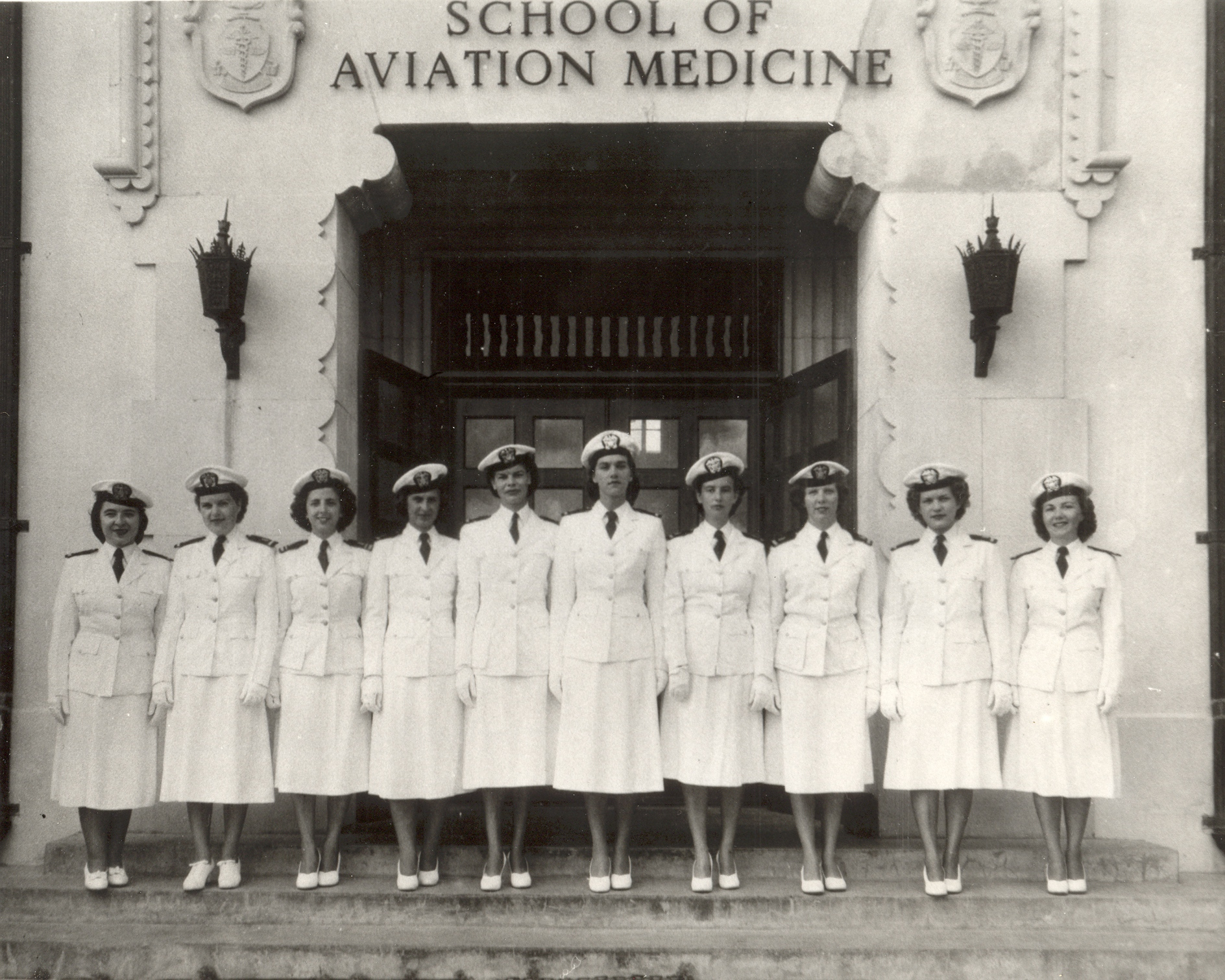 Navy flight nurses at School of Aviation Medicine, 1940s